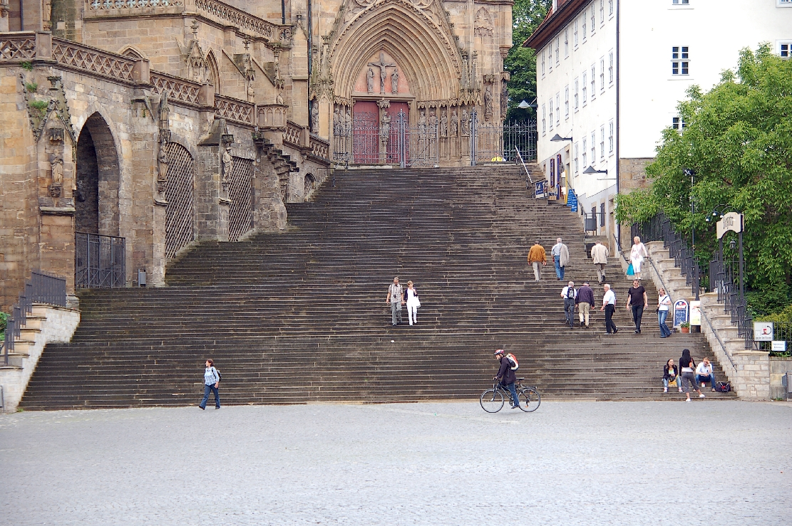 Staircase to Erfurt Cathedral